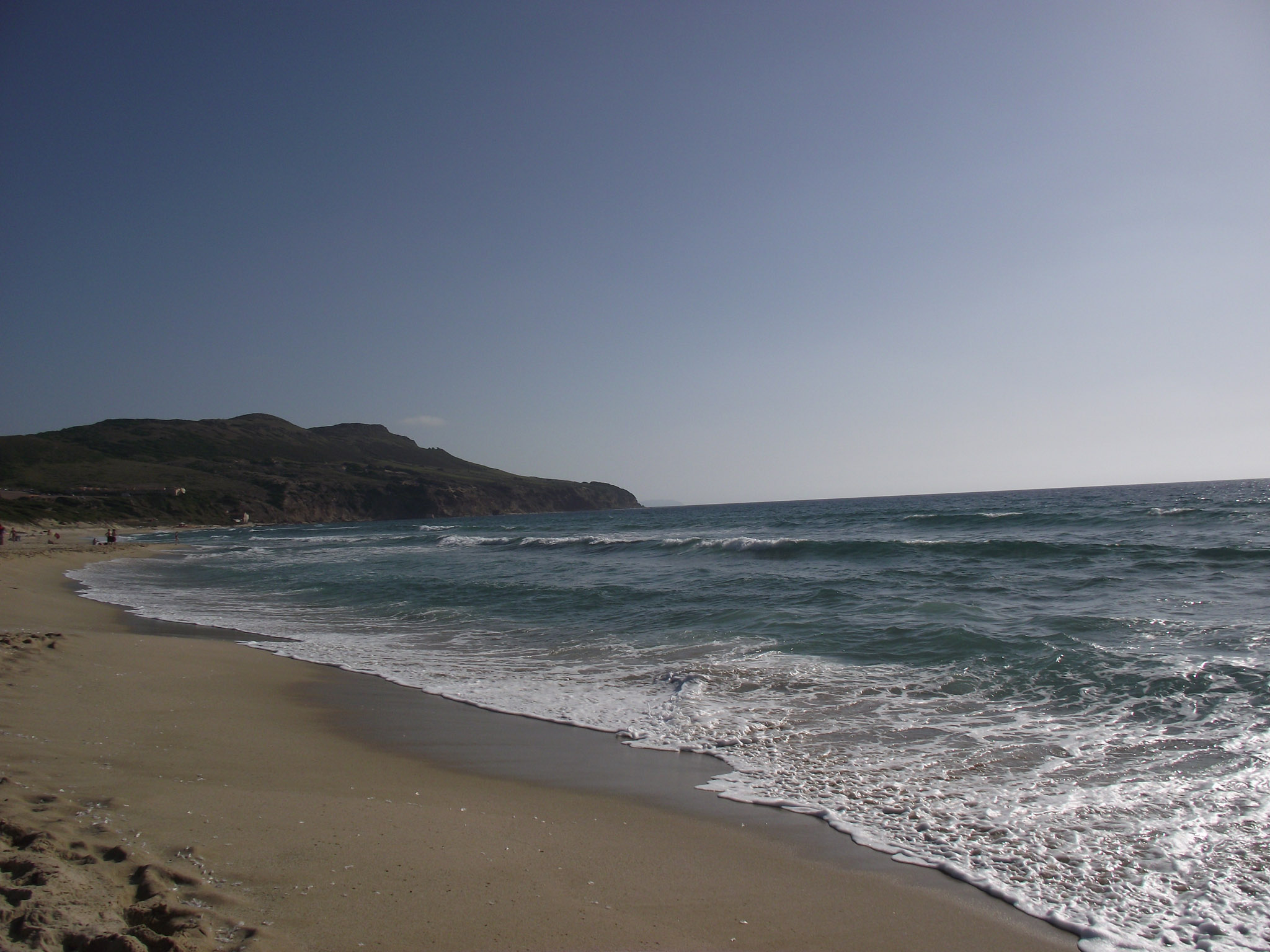 The beach of Sa Punta e S'Arena in Gonnesa Sardinia, Italy